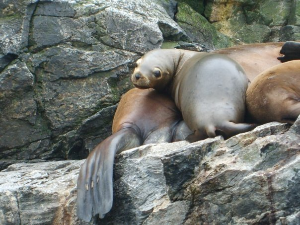 sea lyon. Punta de Choros, 4th. Region. Chile.